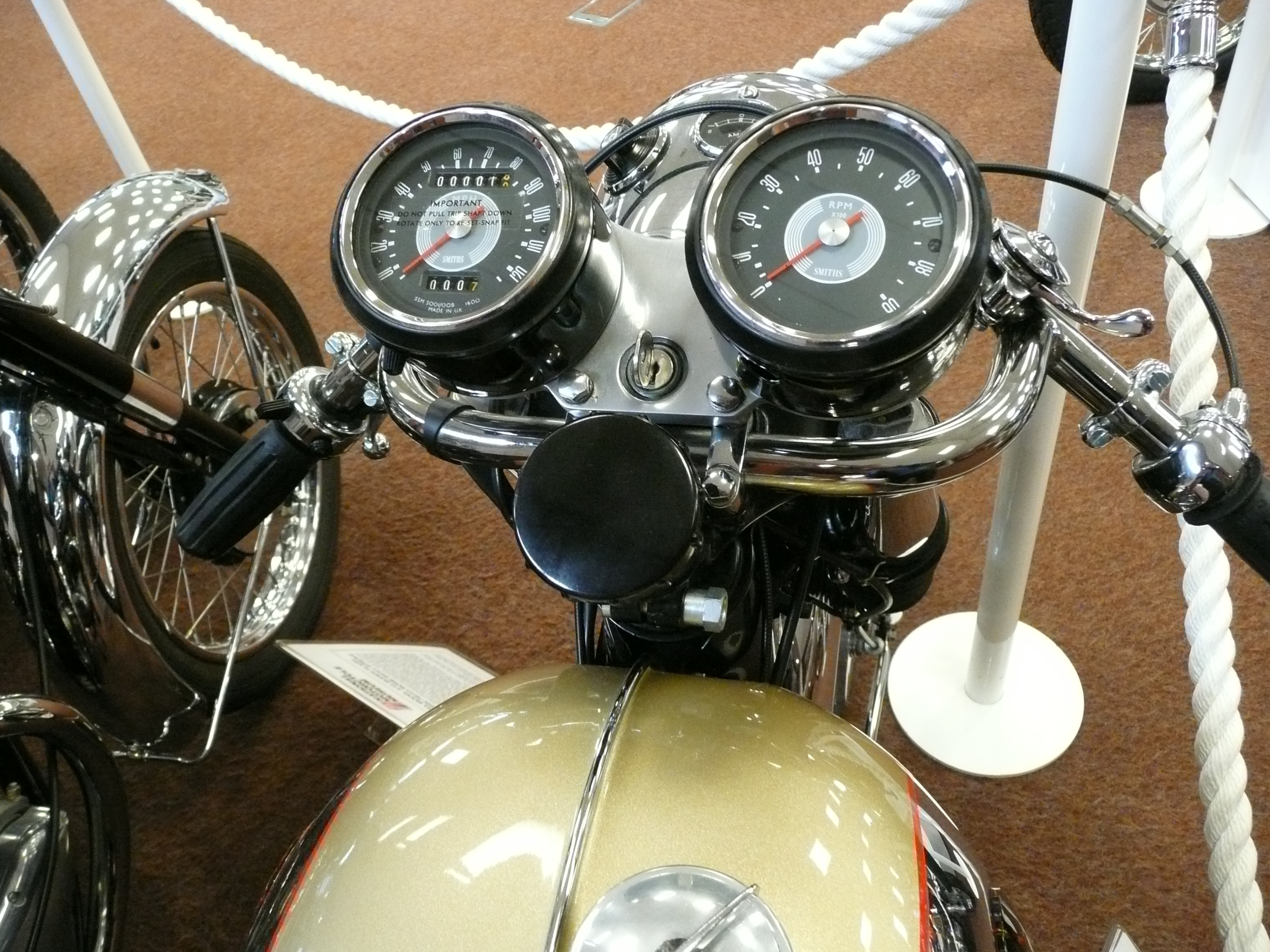 BSA Lightning Clubman (instruments)